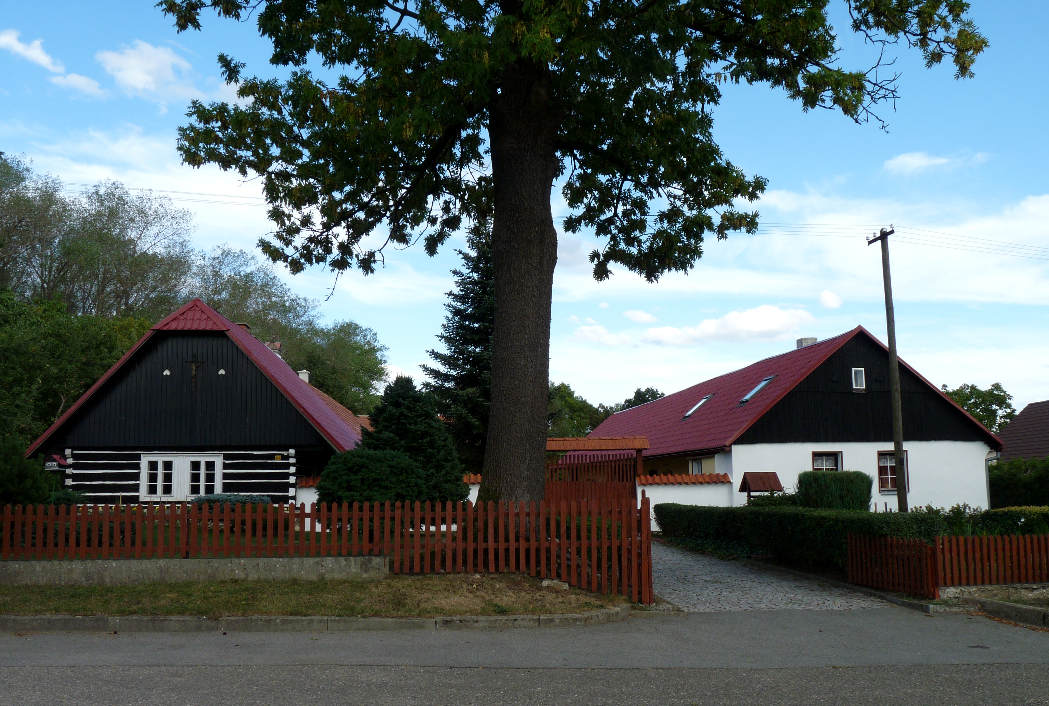 House No 4 in the village of Jankovská Lhota,Benešov District, Central Bohemian Region, Czech Republic.